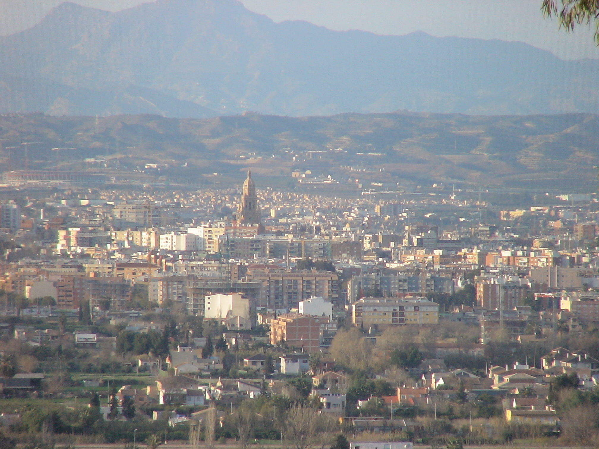 Murcia from the Fuensanta Sanctuary